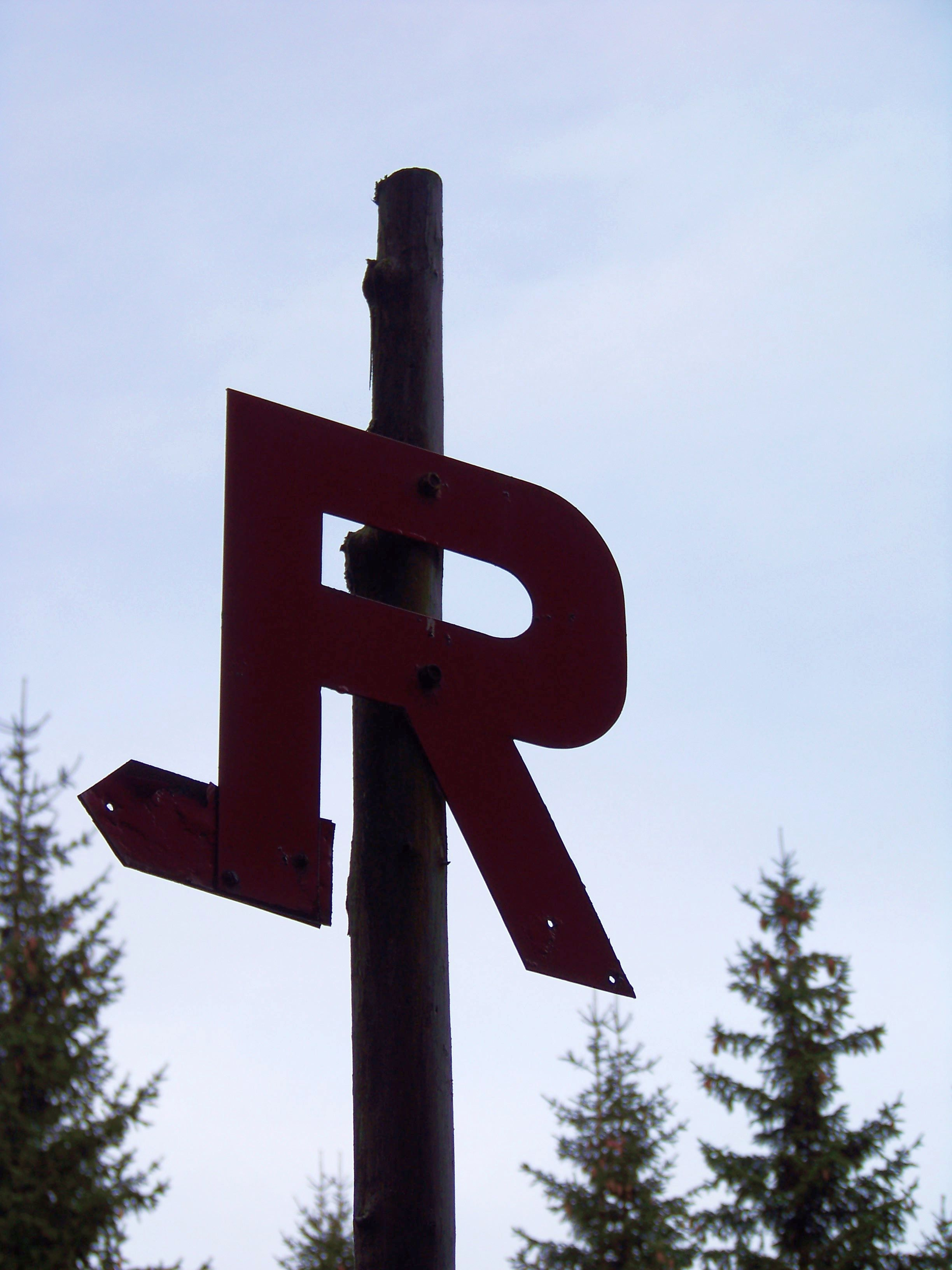 Rokytnice nad Jizerou-Rokytno, Semily District, Liberec Region, the Czech Republic. A Muttich's sign near Dvoračky.